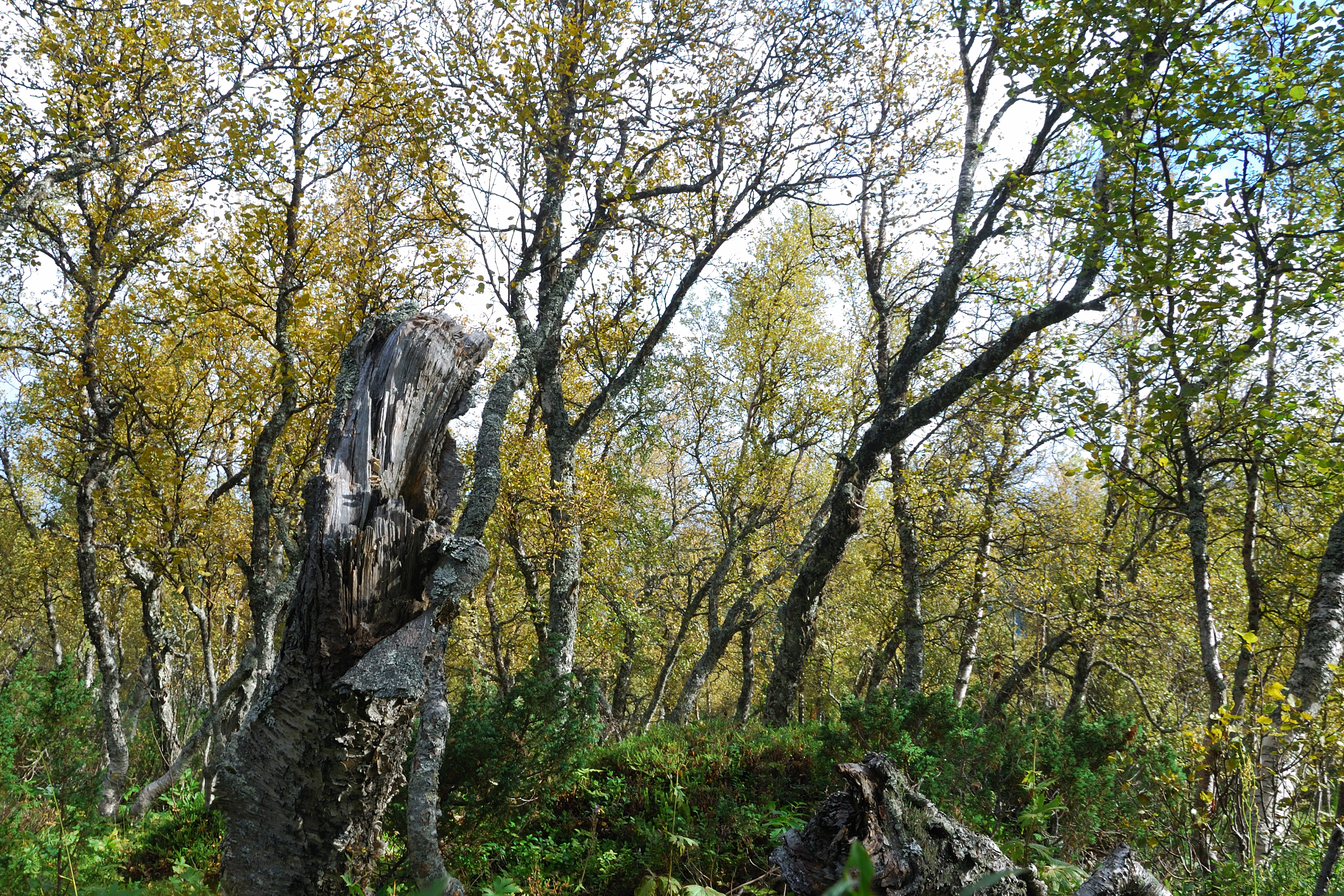 Montane Birch forests in Ljungdalen, in Bergs municipality, Härjedalen (Sweden). Altitude approximately 850 m. For more information see Scandinavian Montane Birch forest and grasslands